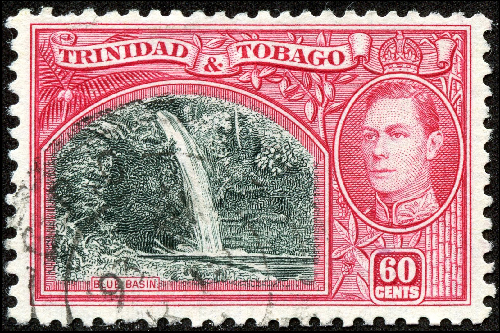 Stamp of Trinidad and Tobago, blue basin, 60c, 1938.